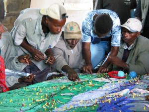 Ogiek Peoples locating their traditional spatial knowledge on a Participatory 3D Model, Nessuit, Mau Forest Complex, Kenya